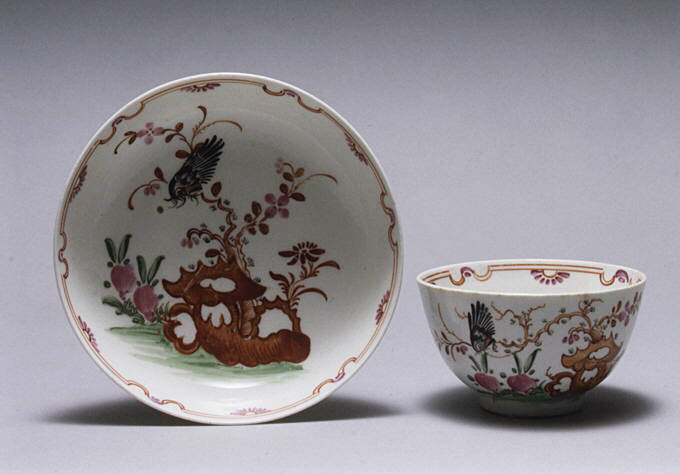 British, Lowestoft; Teabowl and saucer; Ceramics-Porcelain